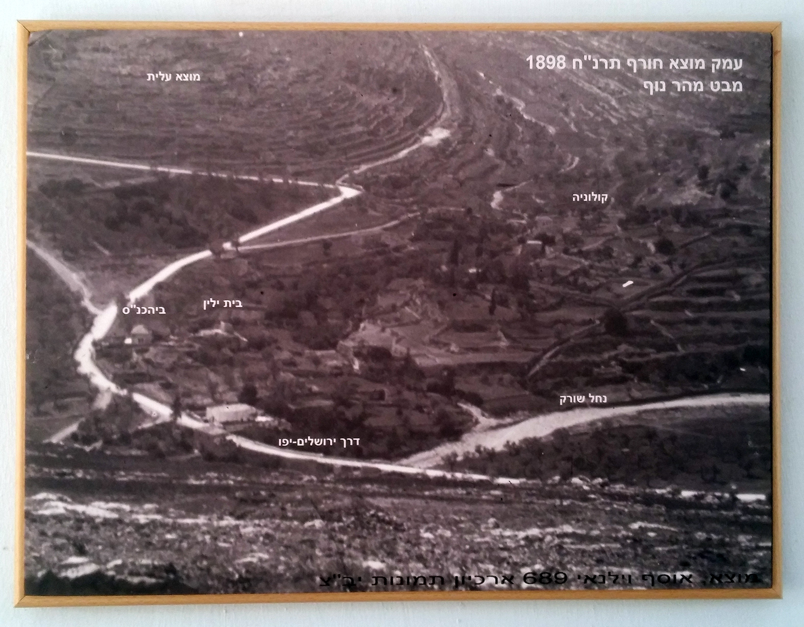 Beit Yelin and old synagogue in Motza, Israel